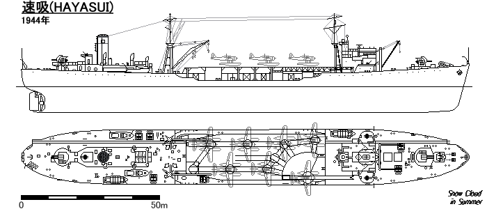 Line Drawing of Japanese fleet oiler Hayasui.